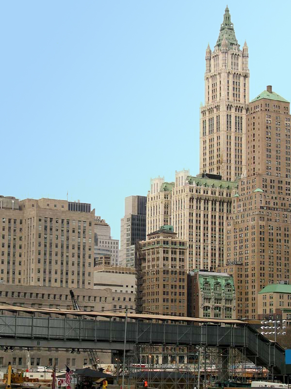 It is really a nice building. I took it when I was in the united states of america.